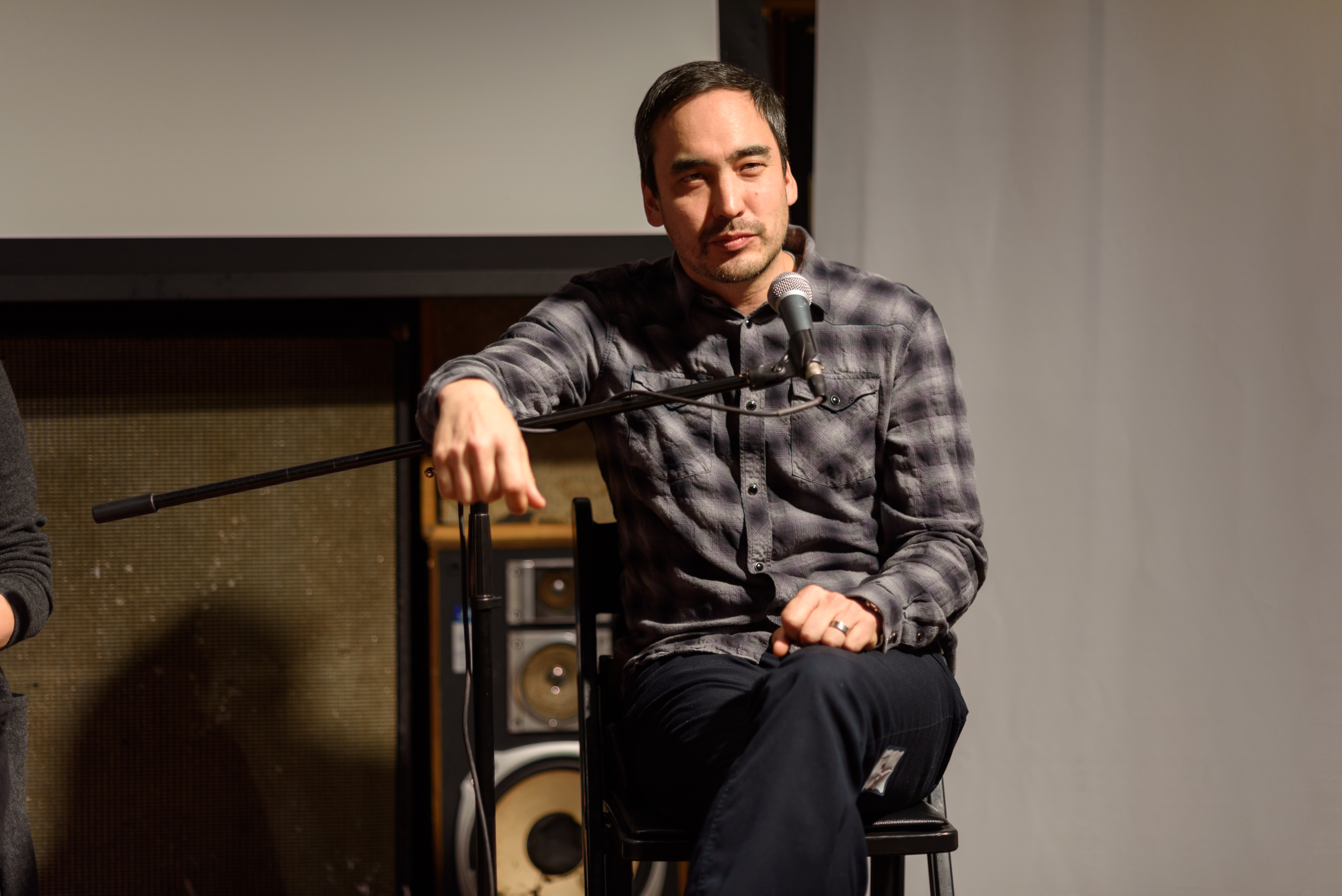 Tim Wu on the Post-Truth Panel at Wikipedia Day 2017, Ace Hotel, New York City.